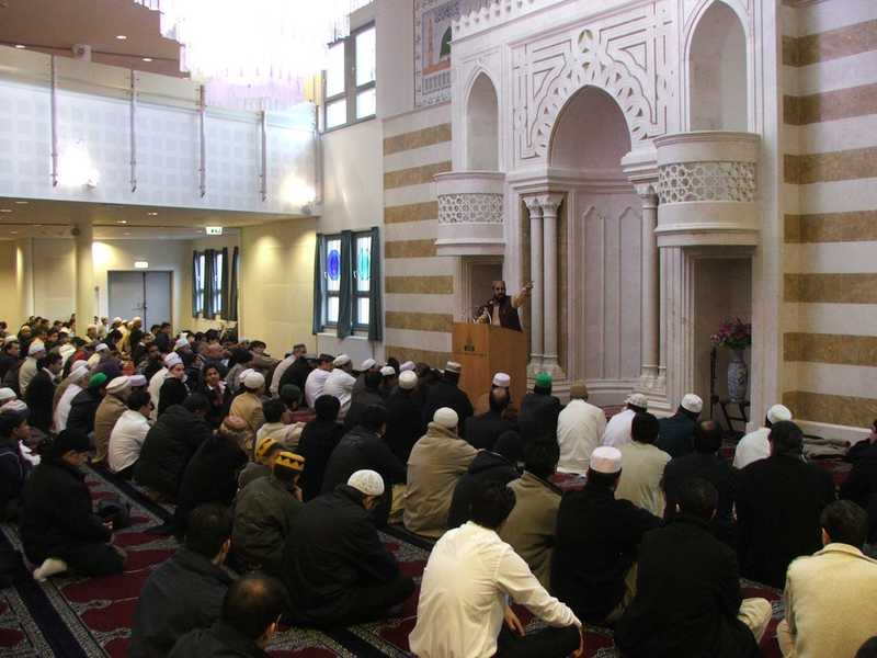 Inside the Central Jamaat-e Ahl-e Sunnat Norway mosque in Oslo.